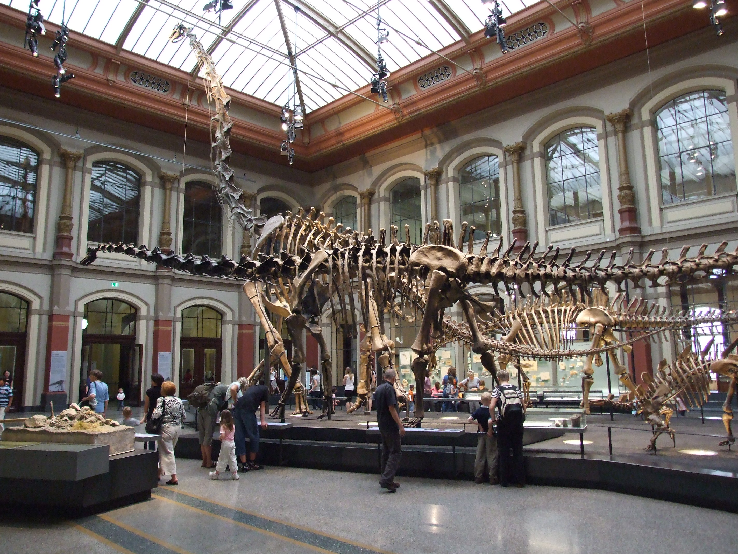 Museum für Naturkunde in Berlinhelp